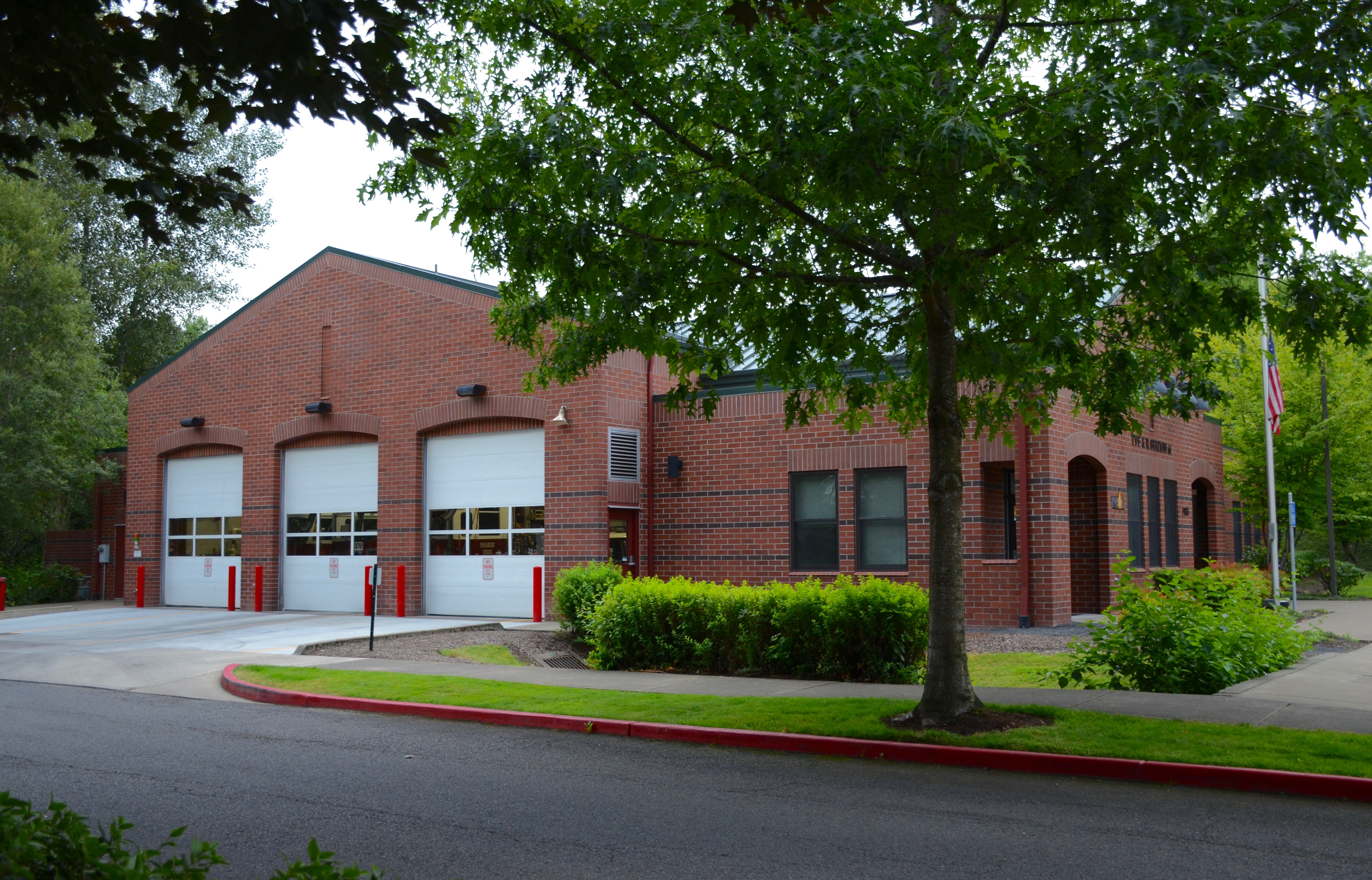 Fire station 61 of Tualatin Valley Fire & Rescue. It was built in 1999–2000 and opened in March 2000. The station is located on SW Butner Road at Murray Blvd, on land now (since about 2002) in the city of Beaverton, Oregon, but still surrounded on all sides by unincorporated Washington County in 2017. It is just west of the Cedar Hills neighborhood and at the west edge of the Cedar Hills CDP.